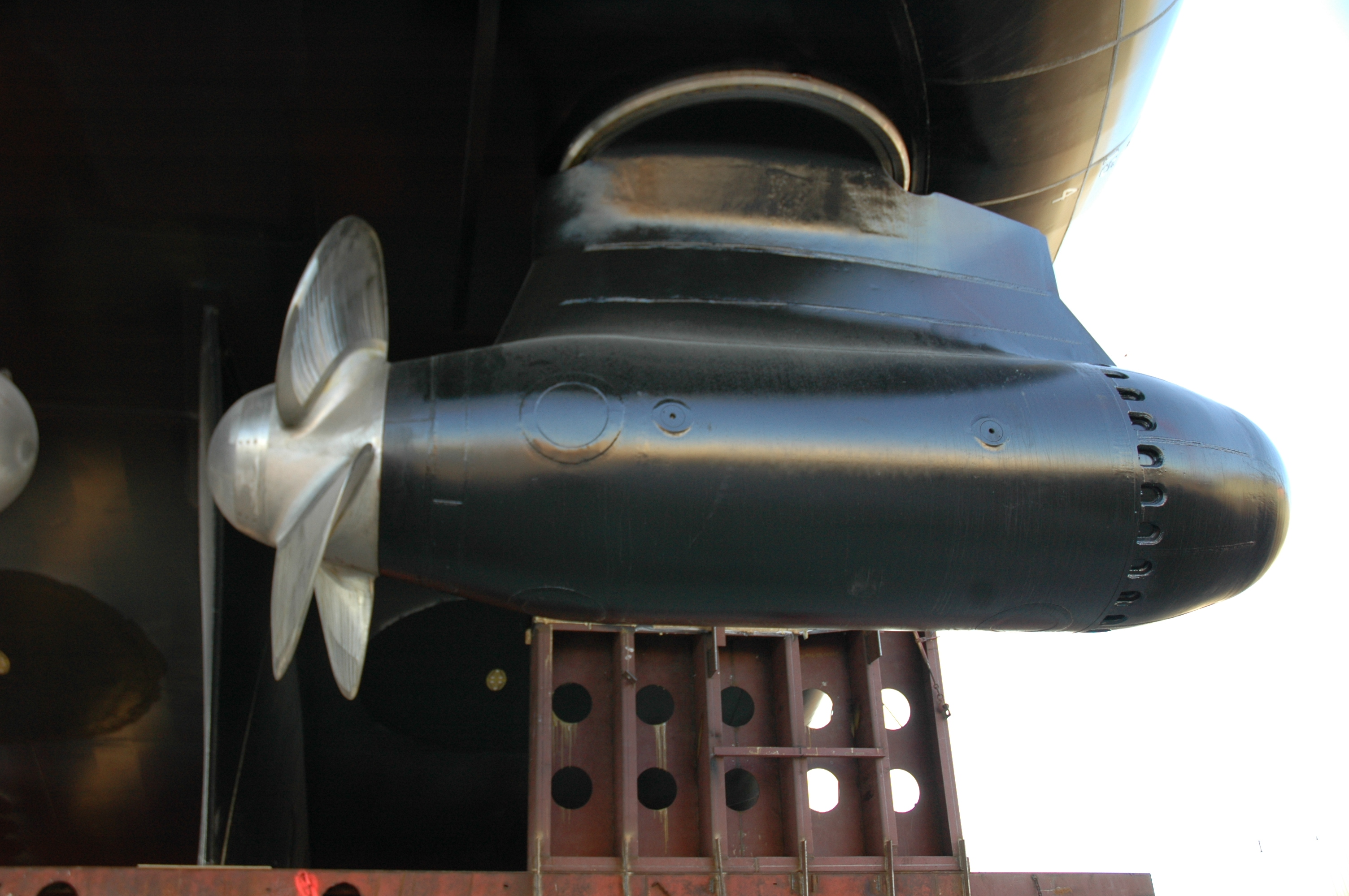 Closeup of an azipod on USGCC Mackinac (WLBB-30)